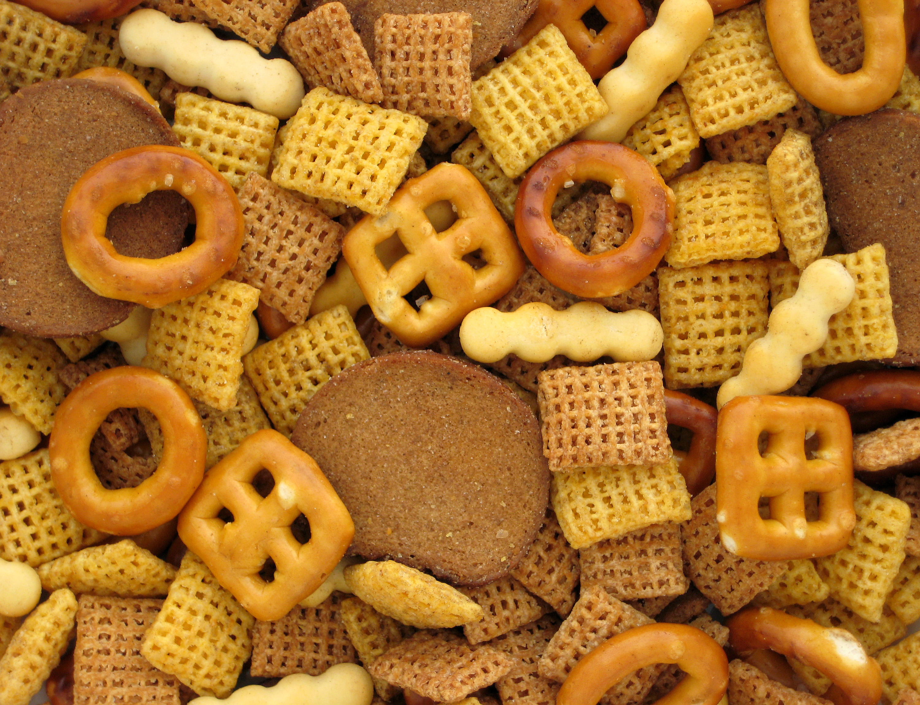 A pile of Chex Mix. This is the official Chex Mix available in stores, and is the regular flavor.